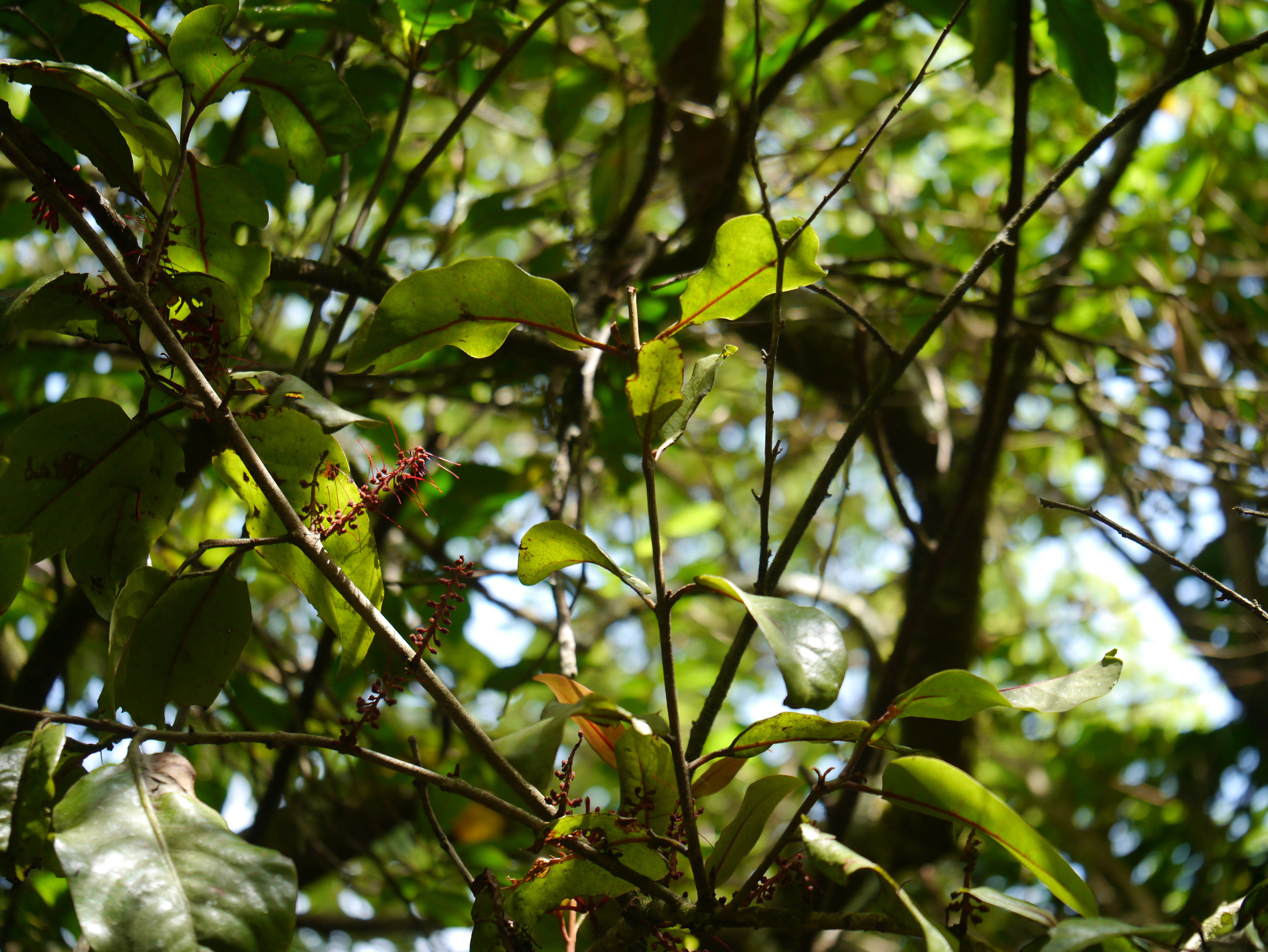 Loranthaceae (mistletoe family) » Helixanthera obtusatus (Wall.) Danser ¿ hee-lick-ZAN-ther-uh ? -- Greek: helix (winding around), anthera (anther) ... Dave's Botanary ob-tew-SAY-tus -- obtuse (blunt, dull) ... Dave's Botanary commonly known as: blunt-leaved helixanthera, bluntleaf mistletoe • Malayalam: ഇത്തിൾക്കണ്ണി ittikkanni • Marathi: लाल बांडगुळ lal bandgul • Tamil: புல்லுருவி pulluruvi ¿ Endemic to ?: Western Ghats (of India) References: India Biodiversity Portal • Further Flowers of Sahyadri by Shrikant Ingalhalikar